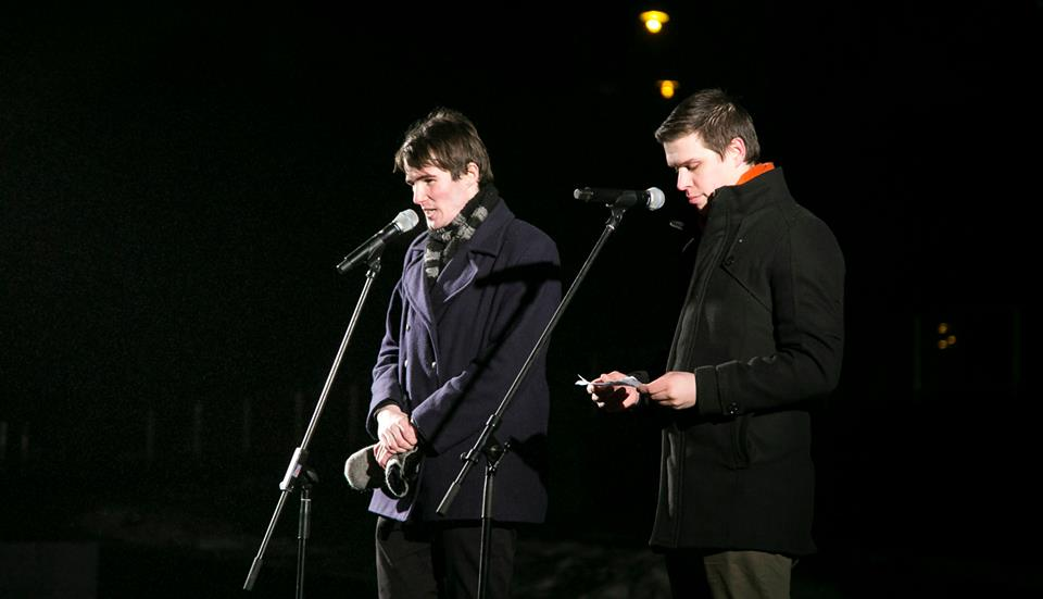 Ruuben Kaalep (EKRE) and Fredrik Hagberg (Nordisk Ungdom) giving a speech